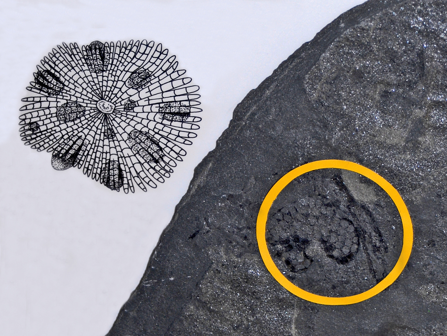 Parka decipiens from Devonian of Scotland, on display at the Museo Civico di Storia Naturale di Milano